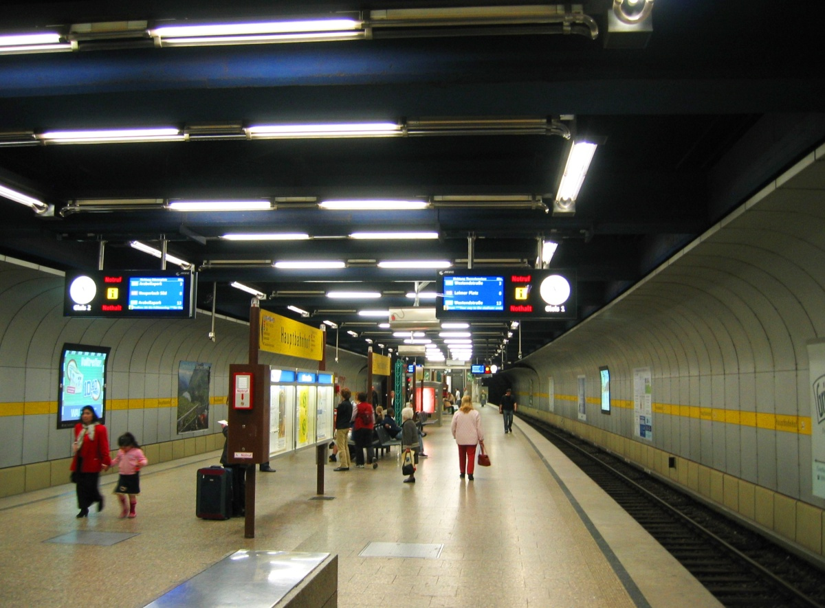 Munich subway station Hauptbahnhof (U4/U5)